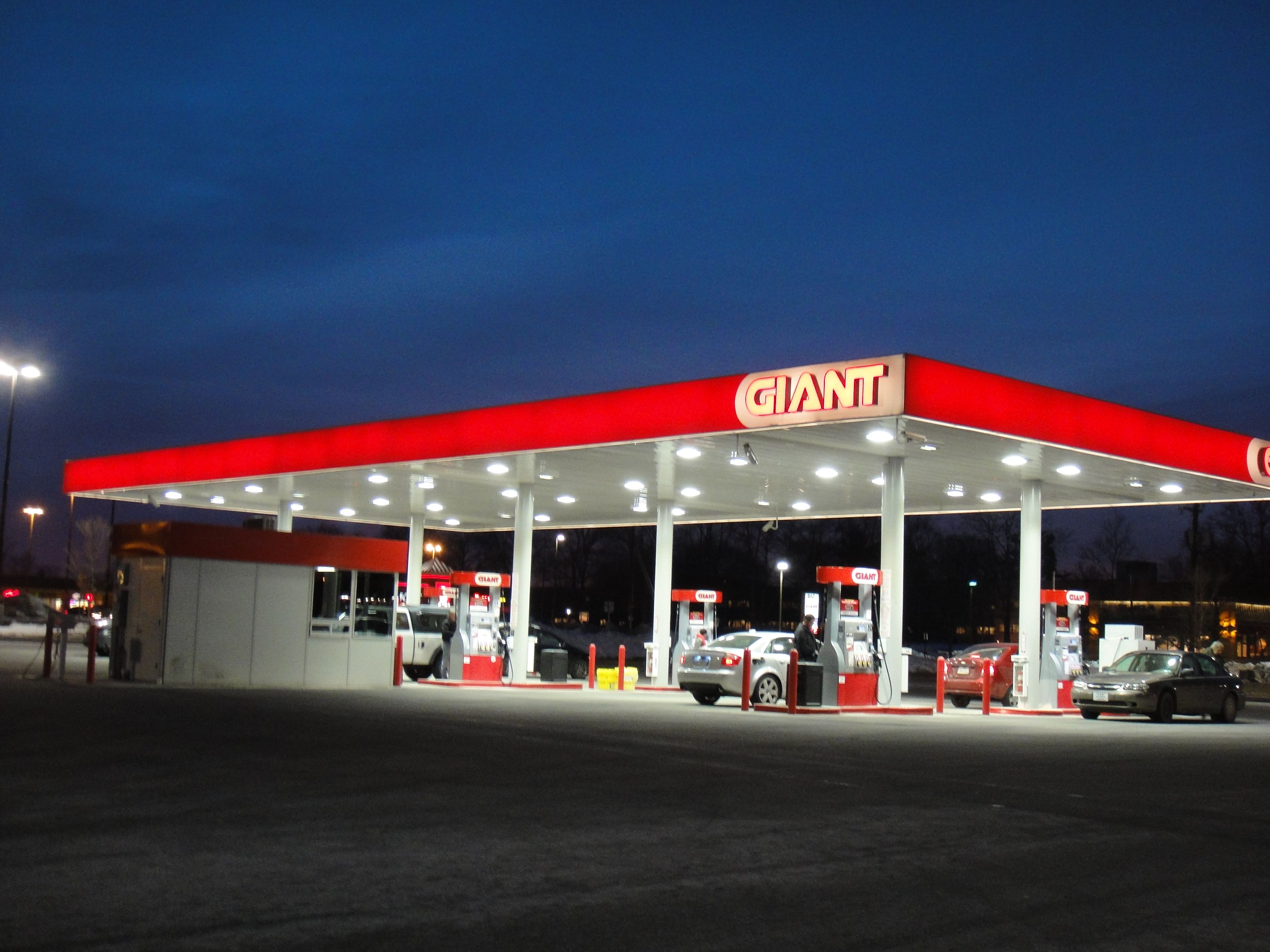 A Giant Gas Station located in Trexlertown, PA.